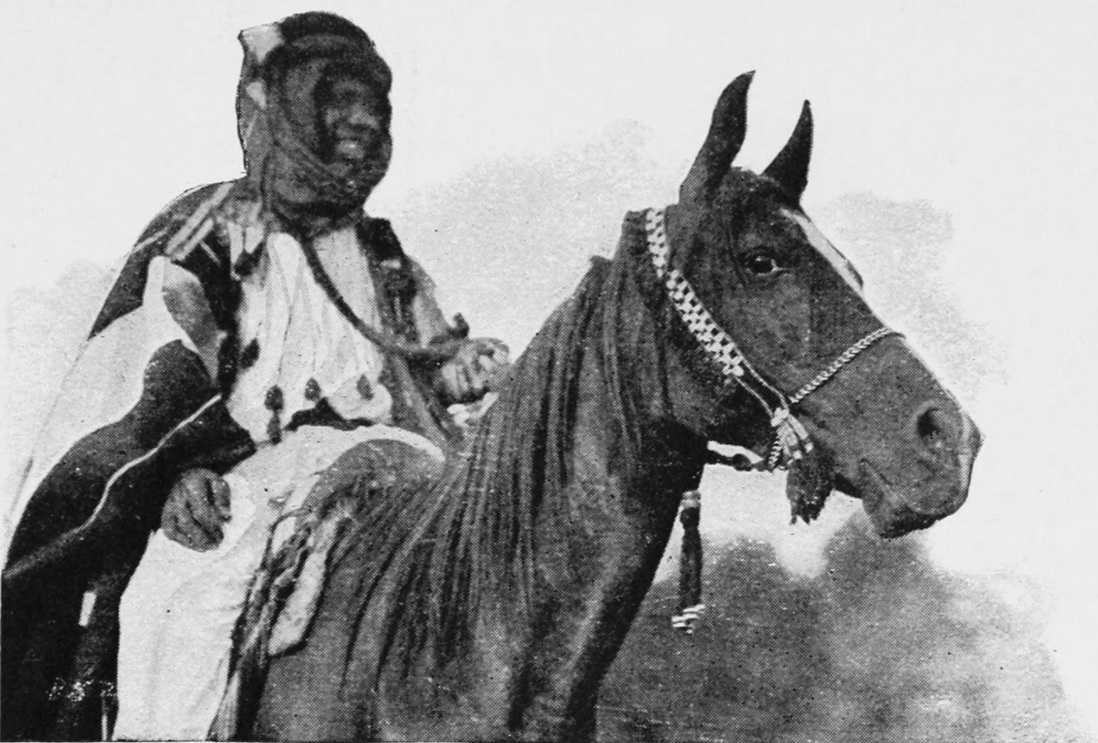 Wadduda, desertbred Arabian mare, circa 1906. From Davenport's caption, "My Royal Present, Wadduda, the War Mare, with Said Abdullah."